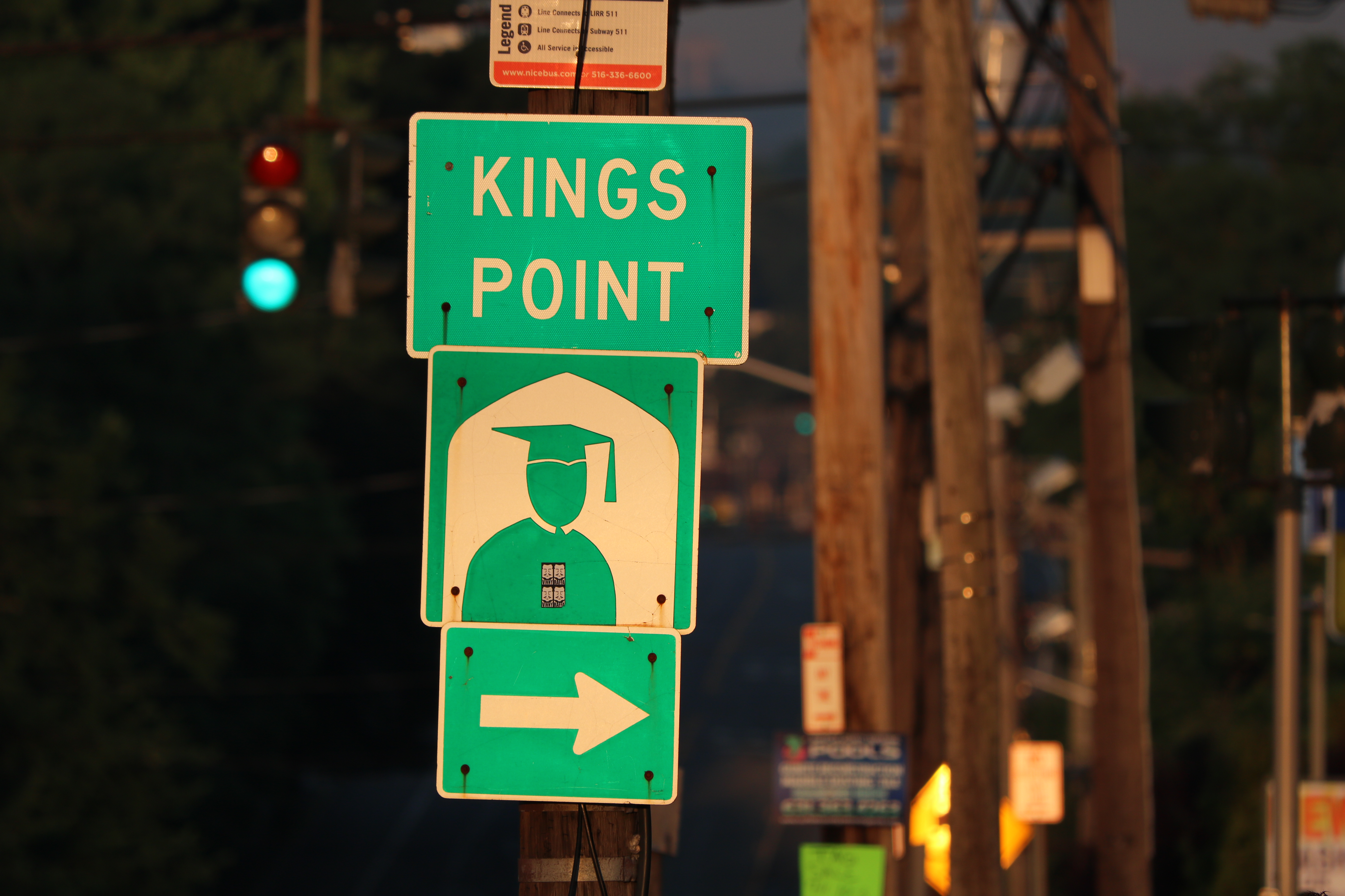 Kings Point sign